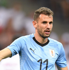 Christian Stuani with Uruguay against Portugal in the 2018 FIFA World Cup